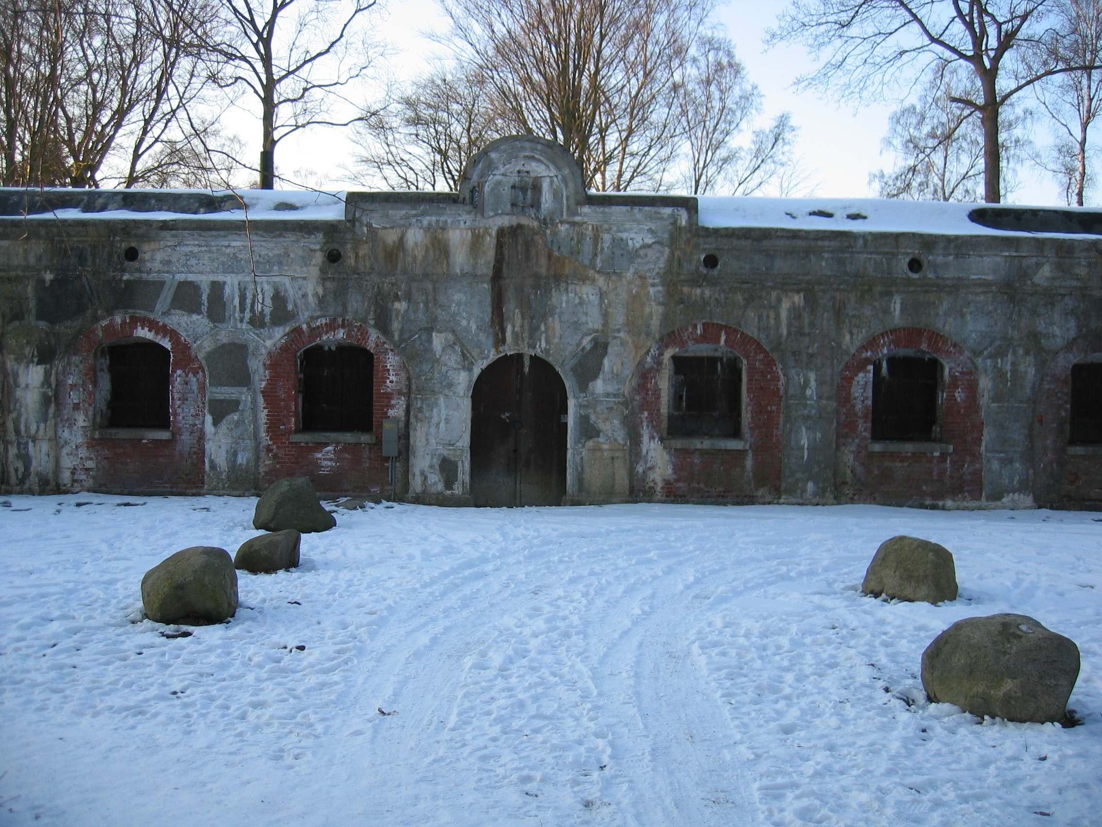 Fortun fort, Jægersborg Deer Park, Denmark.